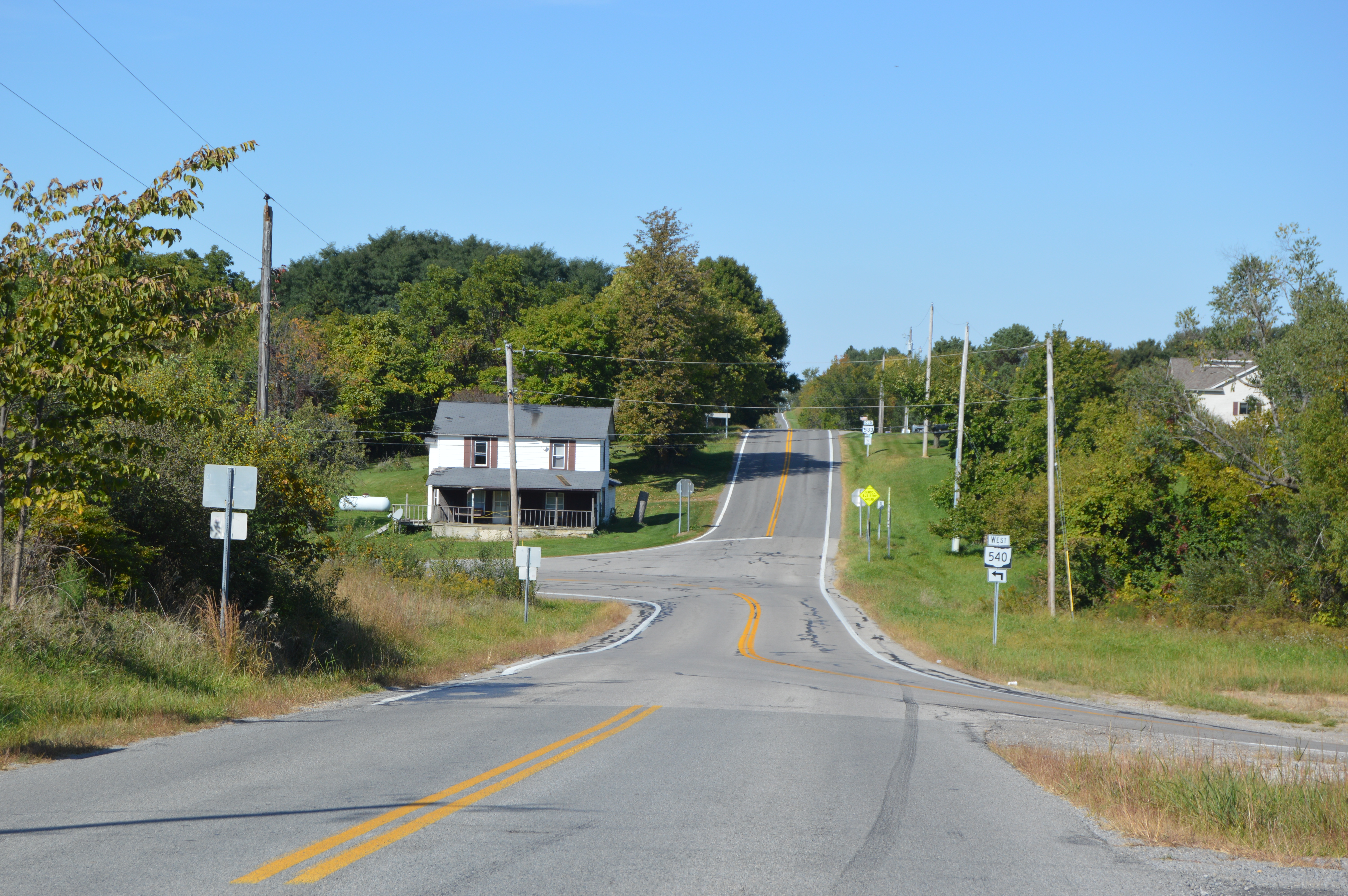 Overview from the south of the crossroads of New Jerusalem, located at the intersection of State Route 540 and County Road 5 in Jefferson Township, Logan County, Ohio, United States.